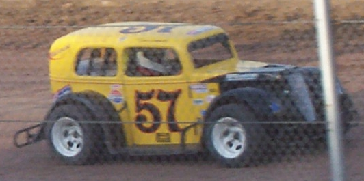 This image was taken at the aces at Charter Raceway Park in Beaver Dam, Wisconsin, USA.